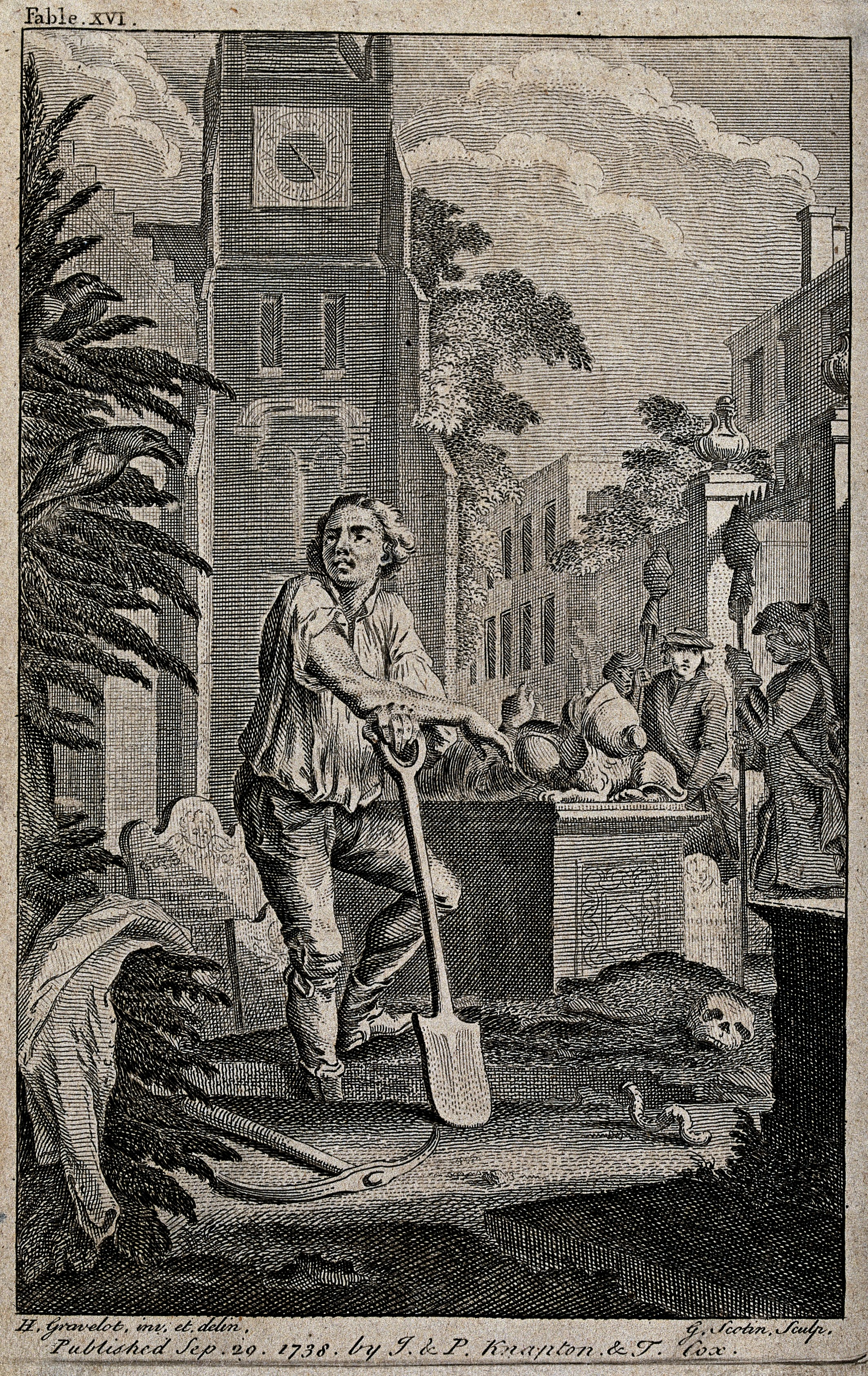 A gravedigger in a churchyard. Etching by G. Scotin after H. Gravelot, 17--. Iconographic Collections Keywords: Gérard Jean-Baptiste Scotin; Hubert Francois Bourguignon d' Anville Gravelot